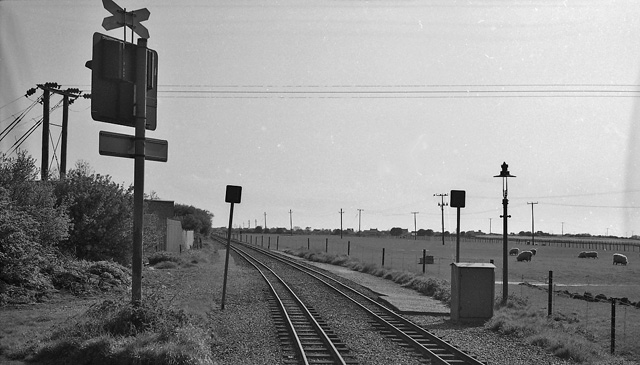 Burmarsh Road 'Halt', Romney, Hythe & Dymchurch Railway. View SW, towards Dungeness; Romney, Hythe & Dymchurch narrow-gauge railway, New Romney - Dungeness. Still 'open'!